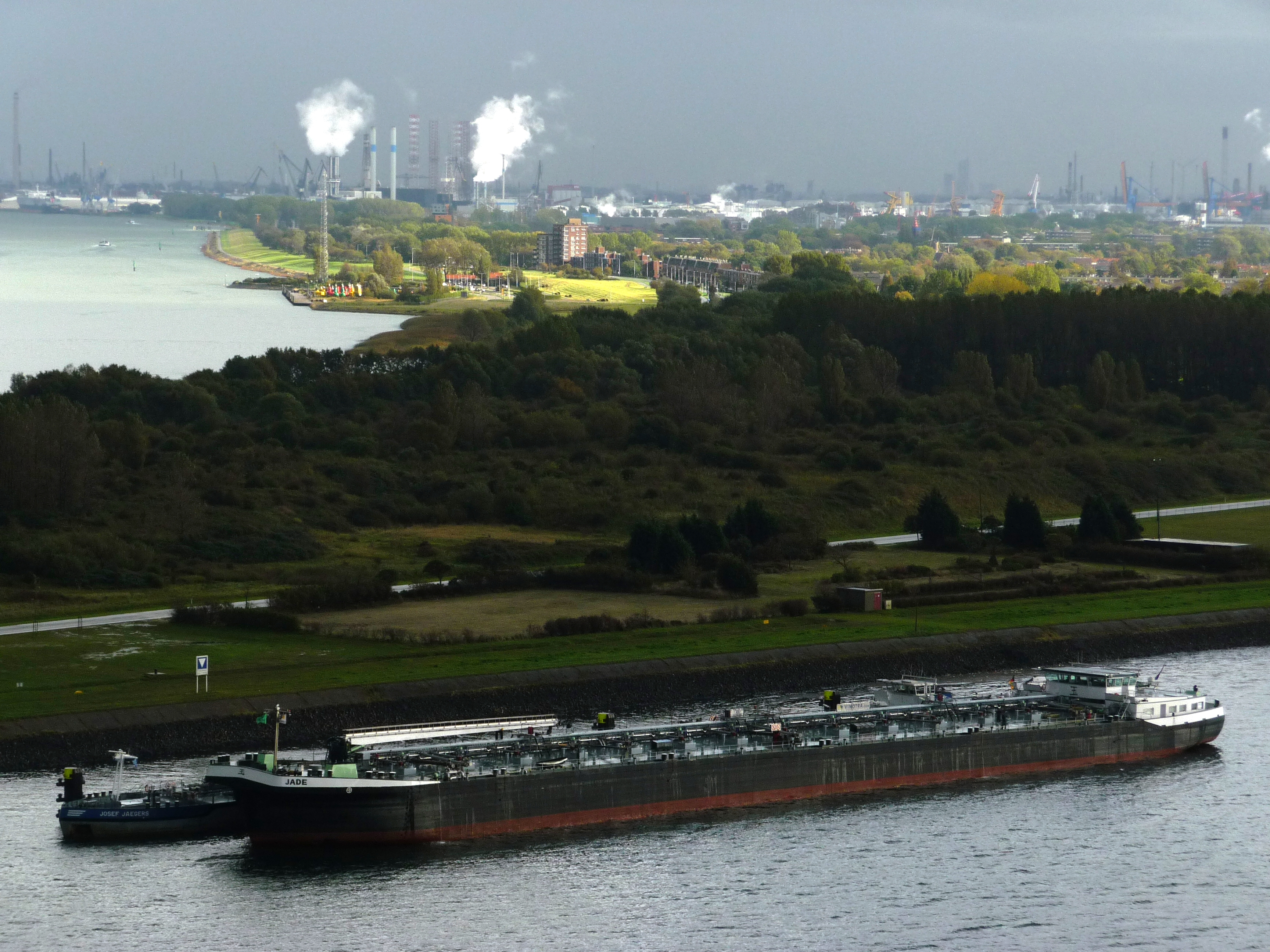 Inland tanker Jade